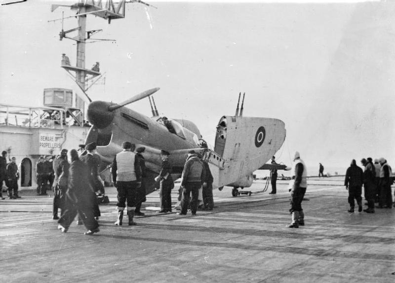 The Royal Navy during the Second World War A Fairey Firefly I with wings folded before being struck down on the lift on board HMS PRETORIA CASTLE during flying trials from the Experimental Aircraft Trials Carrier.